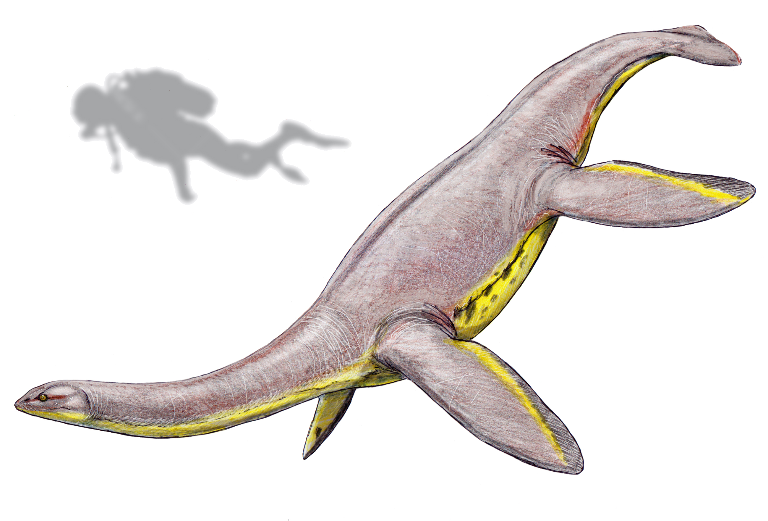 Kaiwhekea katiki, an unusual plesiosaur from Late Cretaceous (Maastrichtian) of New Zealand